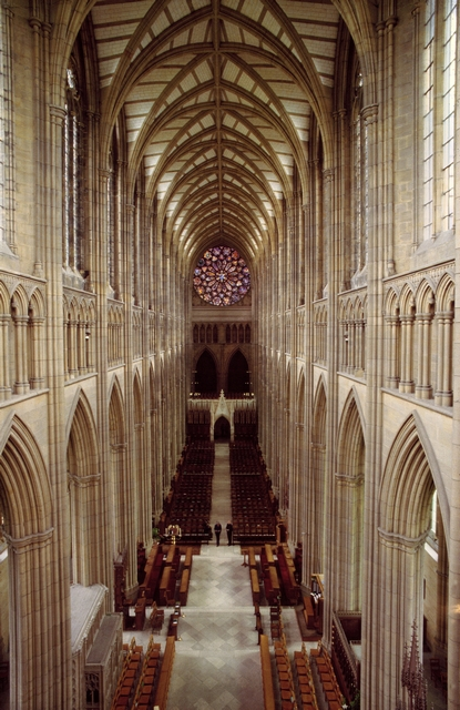 Lancing College Chapel: Interior view at triforium level, looking west to the rose window